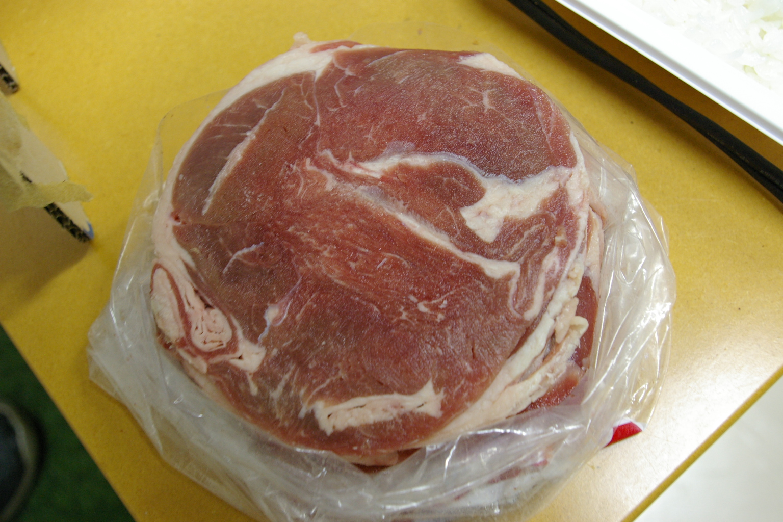 Thawed Lamb for JINGISUKAN.